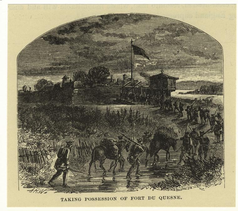 Fort Duquesne Pittsburgh, Pennsylvania, Artist: Alfred Waud (1828-1891)